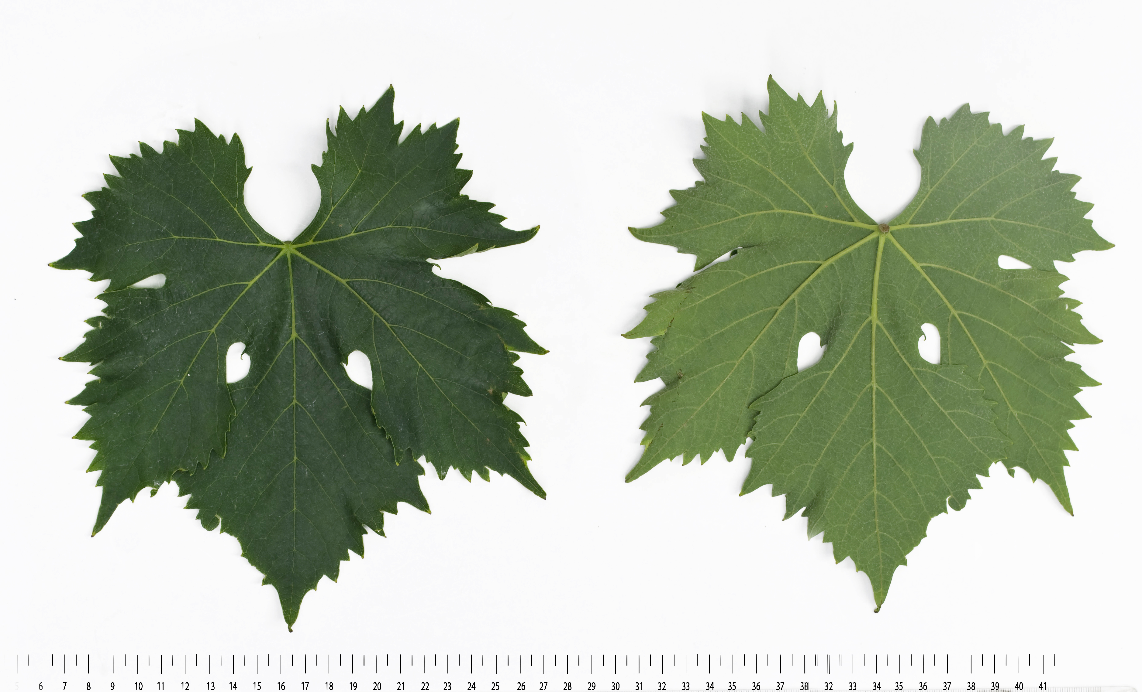 A mature leaf of the Italian grape variety Sangiovese